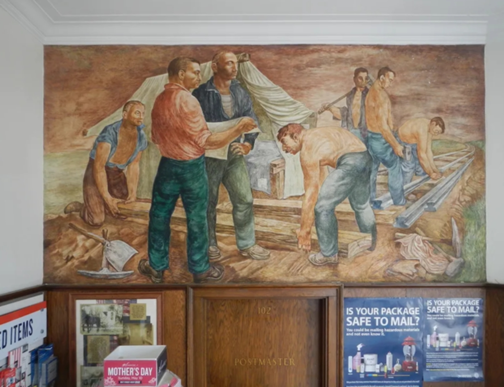 Arthur H. Lidov, "Rail Roading", 1939, oil on canvas. At the United States Post Office, Chillicothe, Illinois